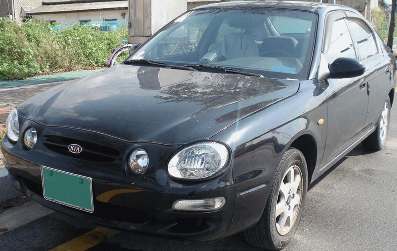 Kia Shuma